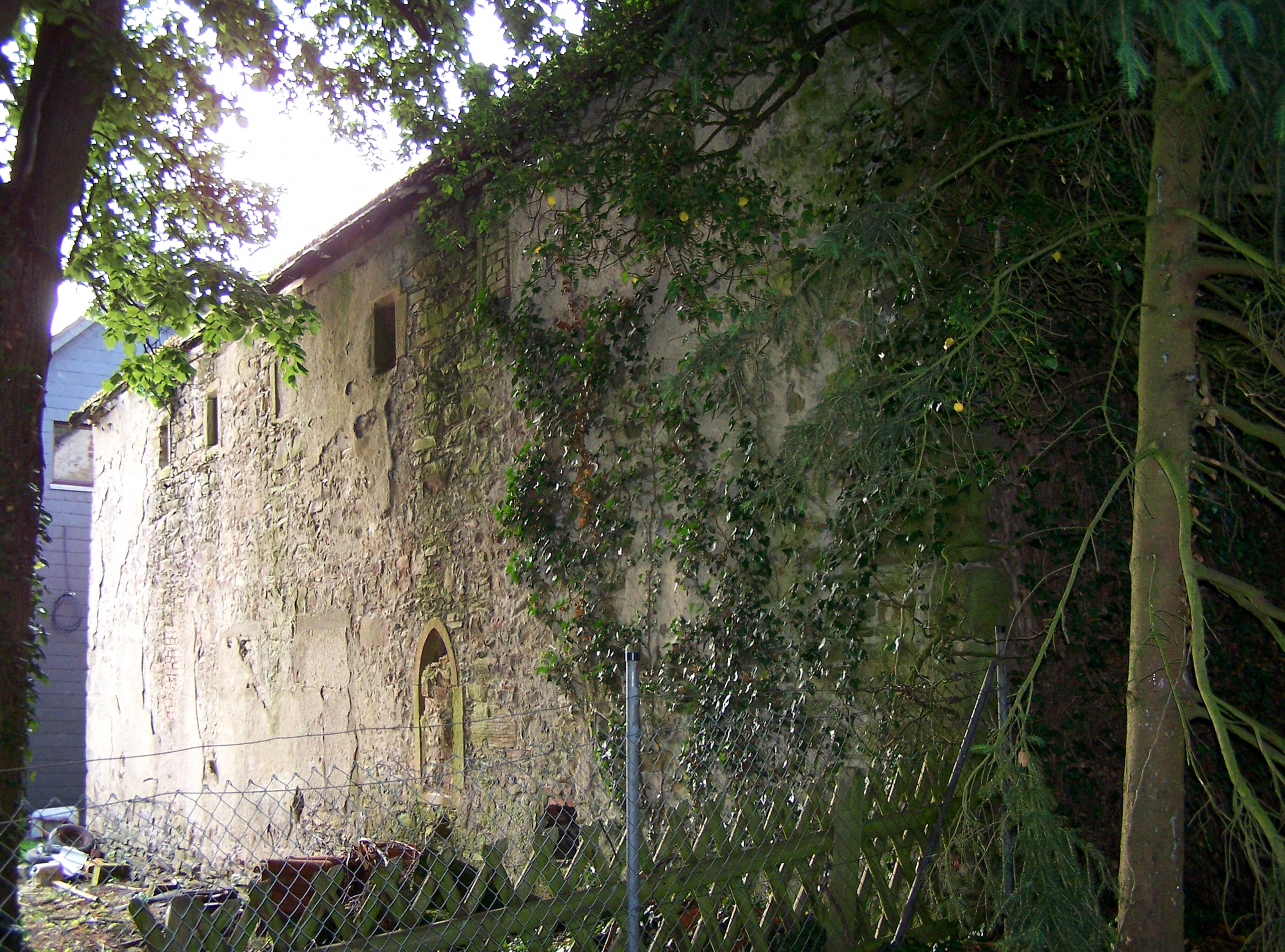 Former convent building of the late romanesque evangelic Nicholas-Church in Caldern, former monastery church of Cistercian nuns first mentioned in 1235 and monastery church from 1250 until 1527, June 2012